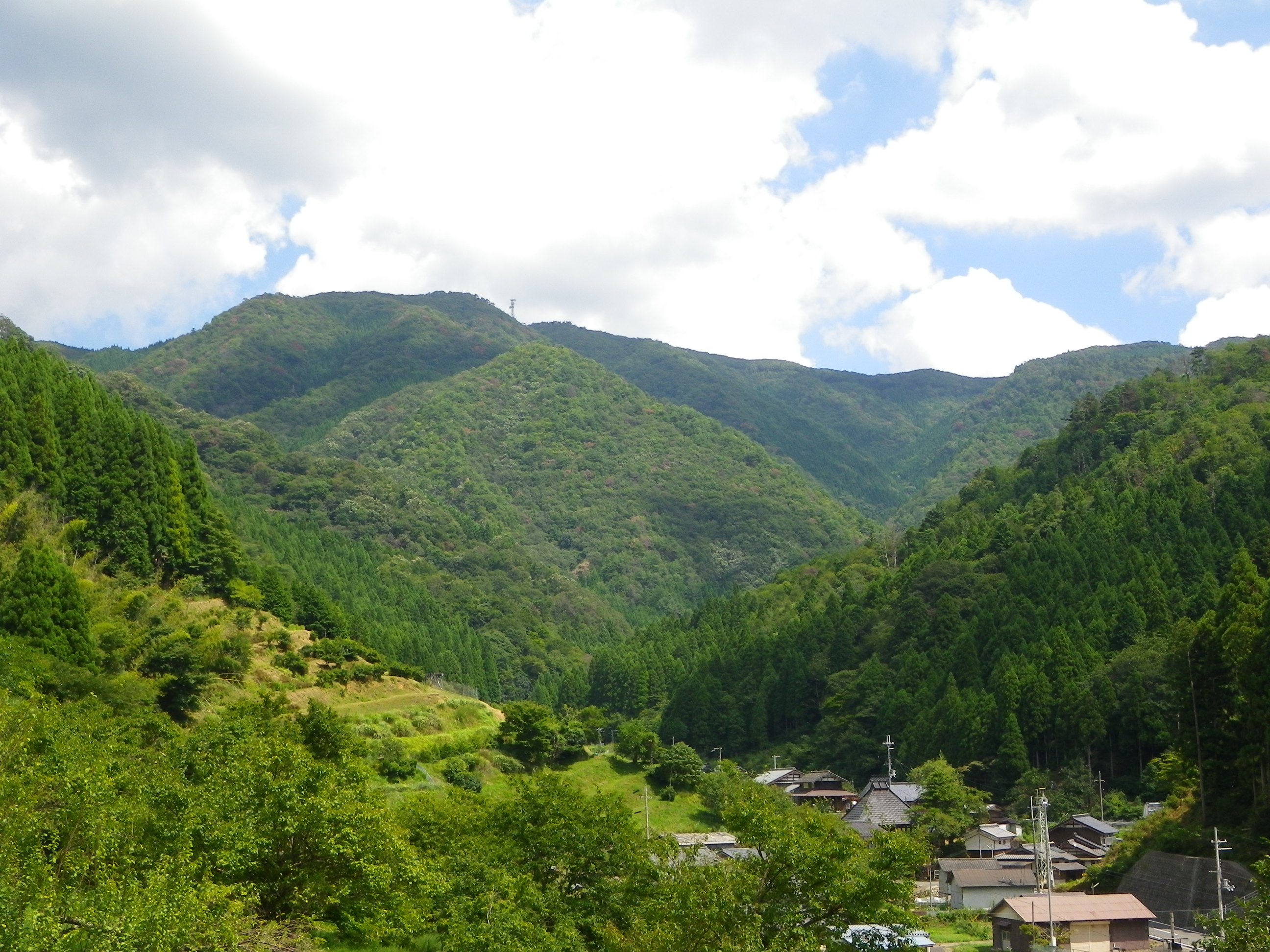 Mount Choro (Choro-ga-dake) as seen from the southwest in Kyoto. Japan.